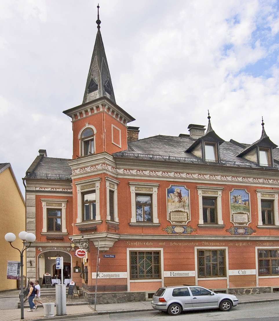 Historical Inn in Carinthia / Austria / Europe Spruch an der Aussenfassade : gott beschütze dieses haus dass arzt und advokat bleib aus beschütz es auch in unglückszeiten vor den maurern und den zimmerleuten wo diese menschen sind zu finden fängt der geldsack an zu schwinden